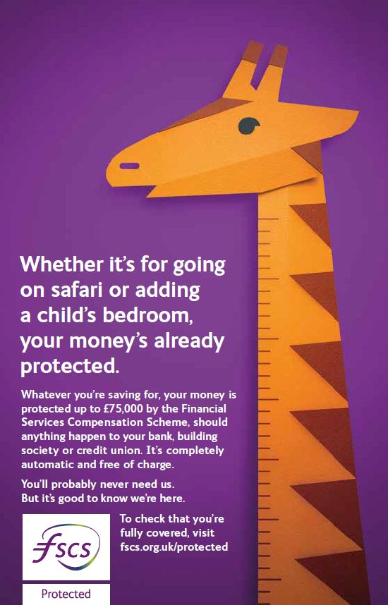 FSCS Advertising Campaign 2016